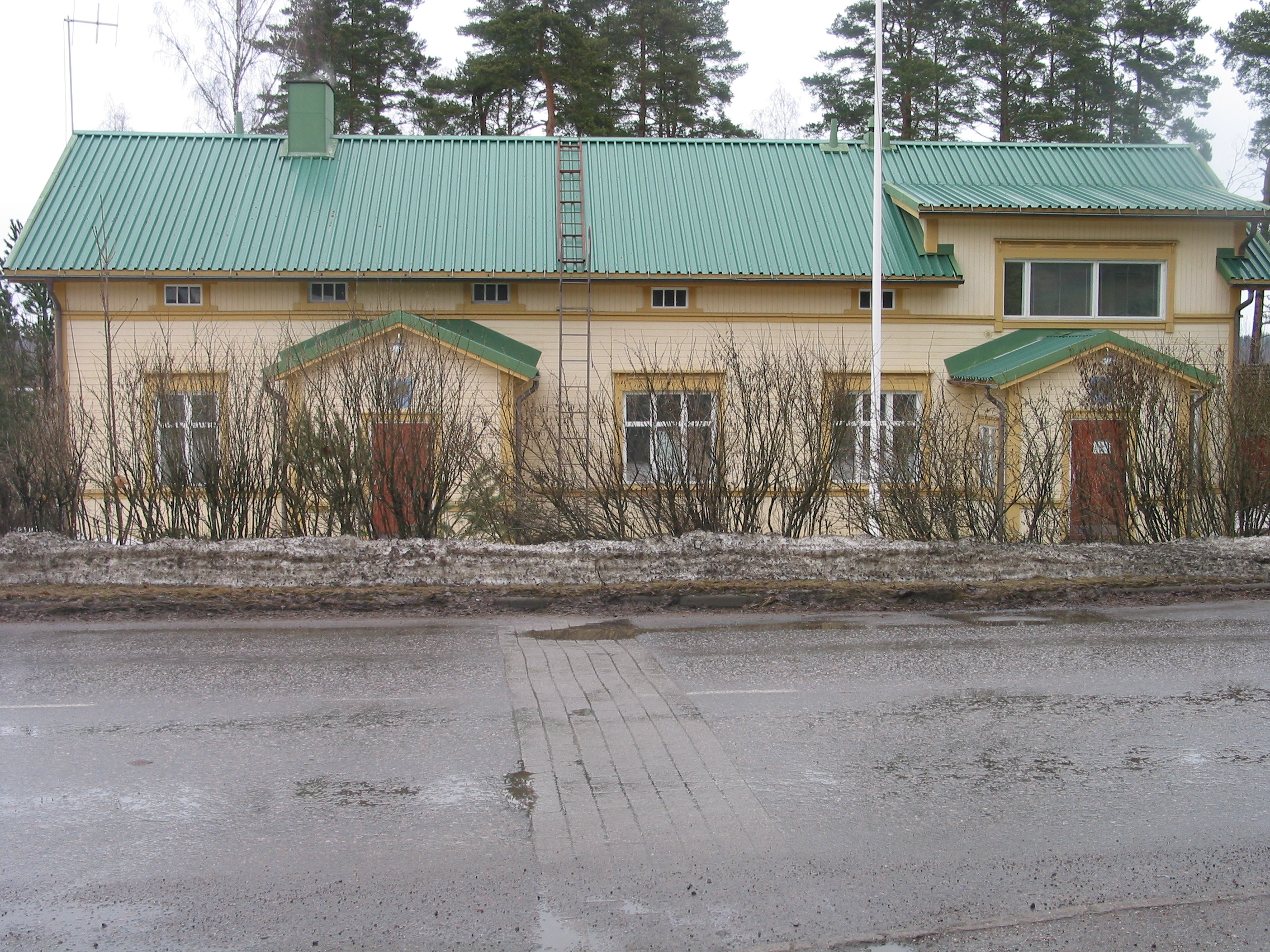 The former municipal house of the municipality of Sammatti, Finland